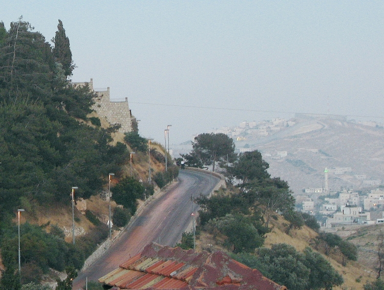 Pope's Road leading up to Mount Zion (Jerusalem)